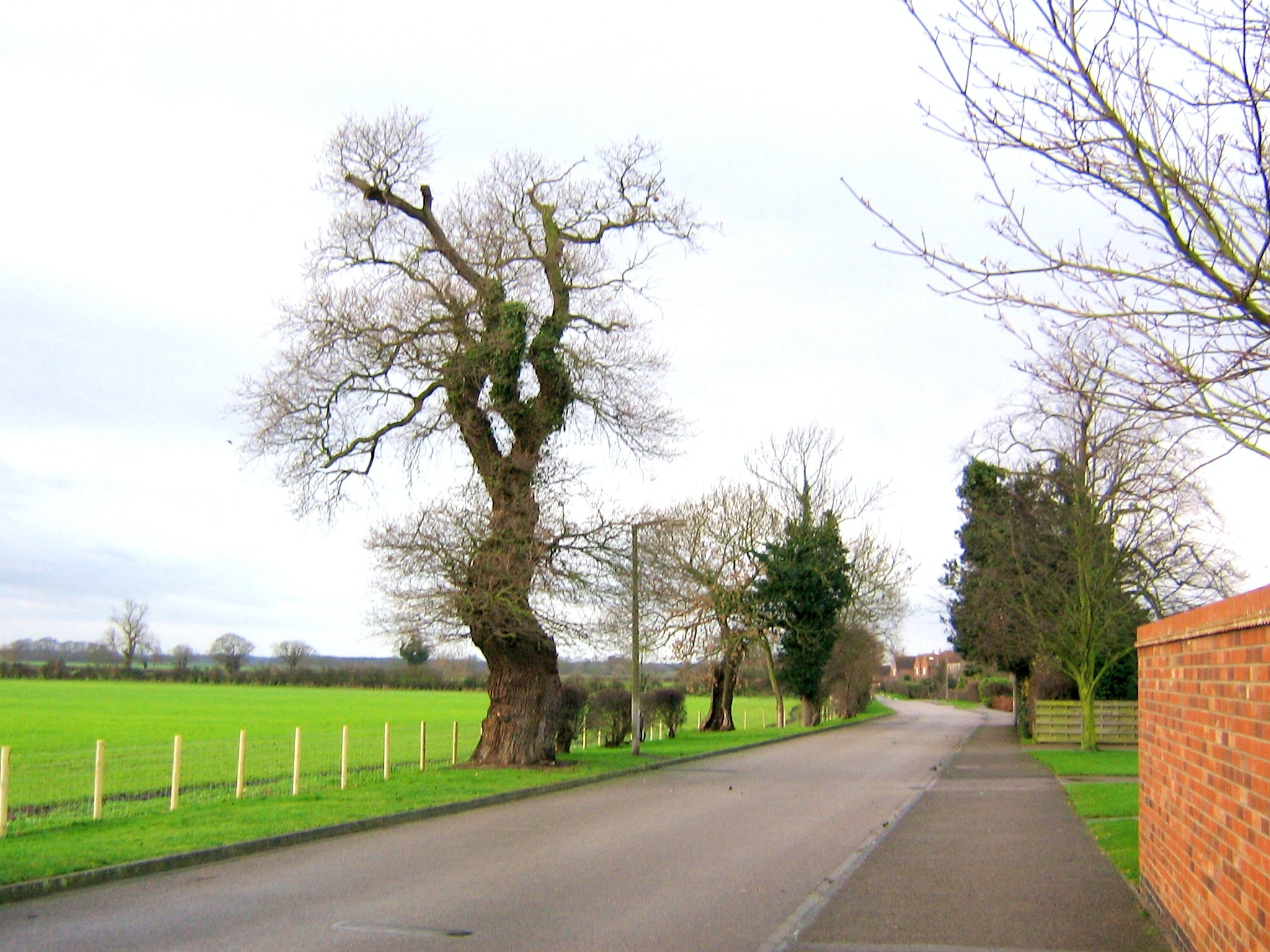 I, known on Wikipedia as Harkey Lodger, am the author and copyright owner of this file.The picture was taken on 07-01-2007 in Wheldrake, UK.Postcode YO19 Harkey Lodger 11:36, 12 January 2007 (UTC)